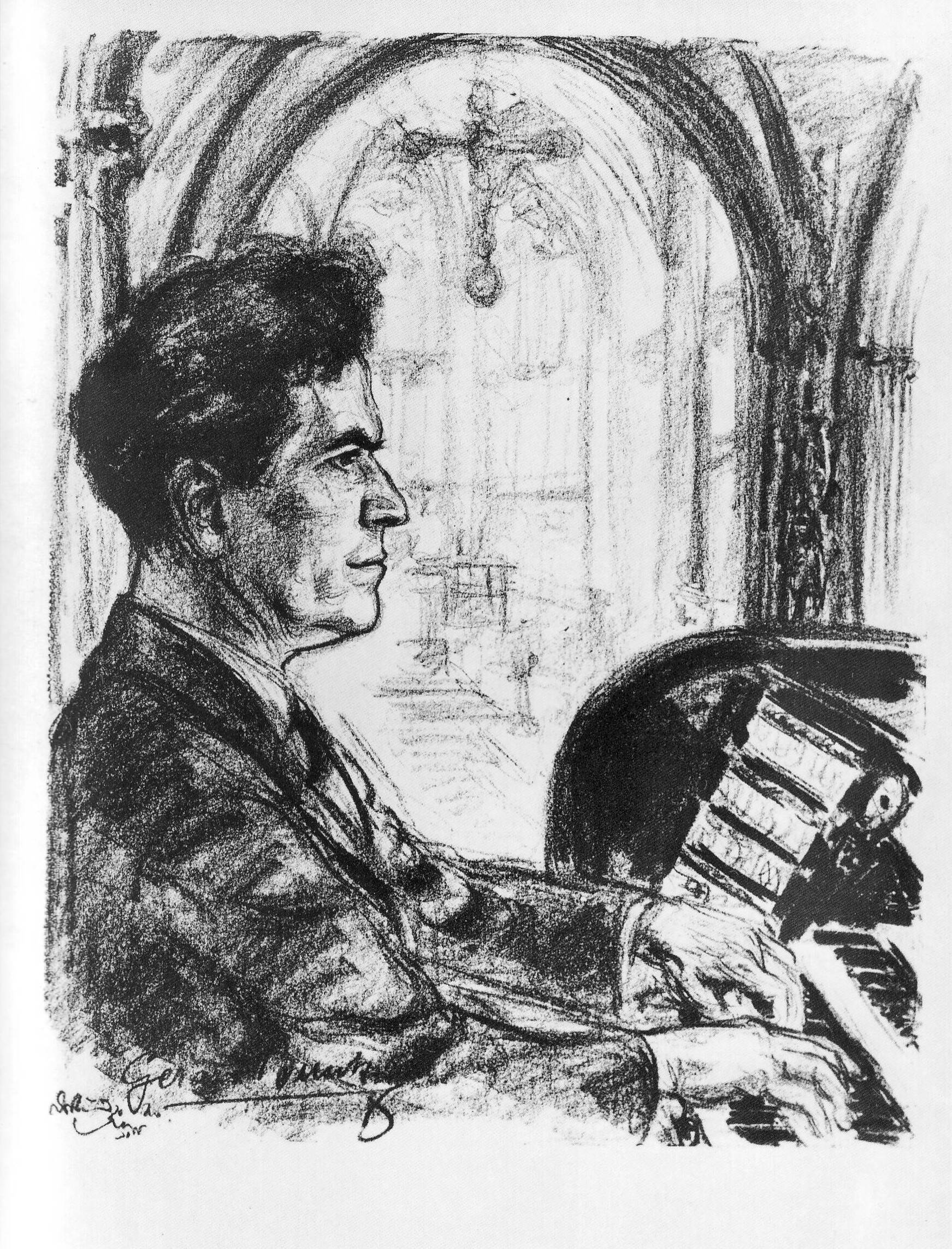 The organist and composer Gerard Bunk (1888-1958) at the Walcker organ of St. Reinoldi, Dortmund - lithograph by Emil Stumpp (1886-1941) - signed by Gerard Bunk